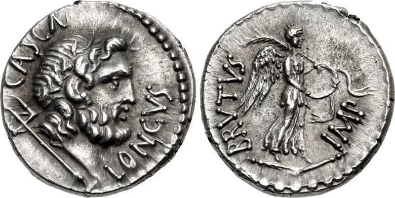 Marcus Iunius Brutus. Late summer-autumn 42 BC. AR Denarius (17mm, 3.96 g, 12h). Military mint traveling with Brutus and Cassius in western Asia Minor or northern Greece. P. Servilius Casca Longus, moneyer. Laureate and bearded head of Neptune right; trident below; CASCA upward to left, LONGVS upward right Victory advancing right on broken scepter, holding palm frond in left hand over left shoulder and broken diadem bound with fillet in both hands; BRVTVS upward to left, IMP upward to right.